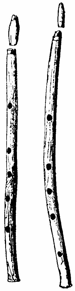 Drawing of ancient Greek double pipes (a sort of aulos, a musical instrument)